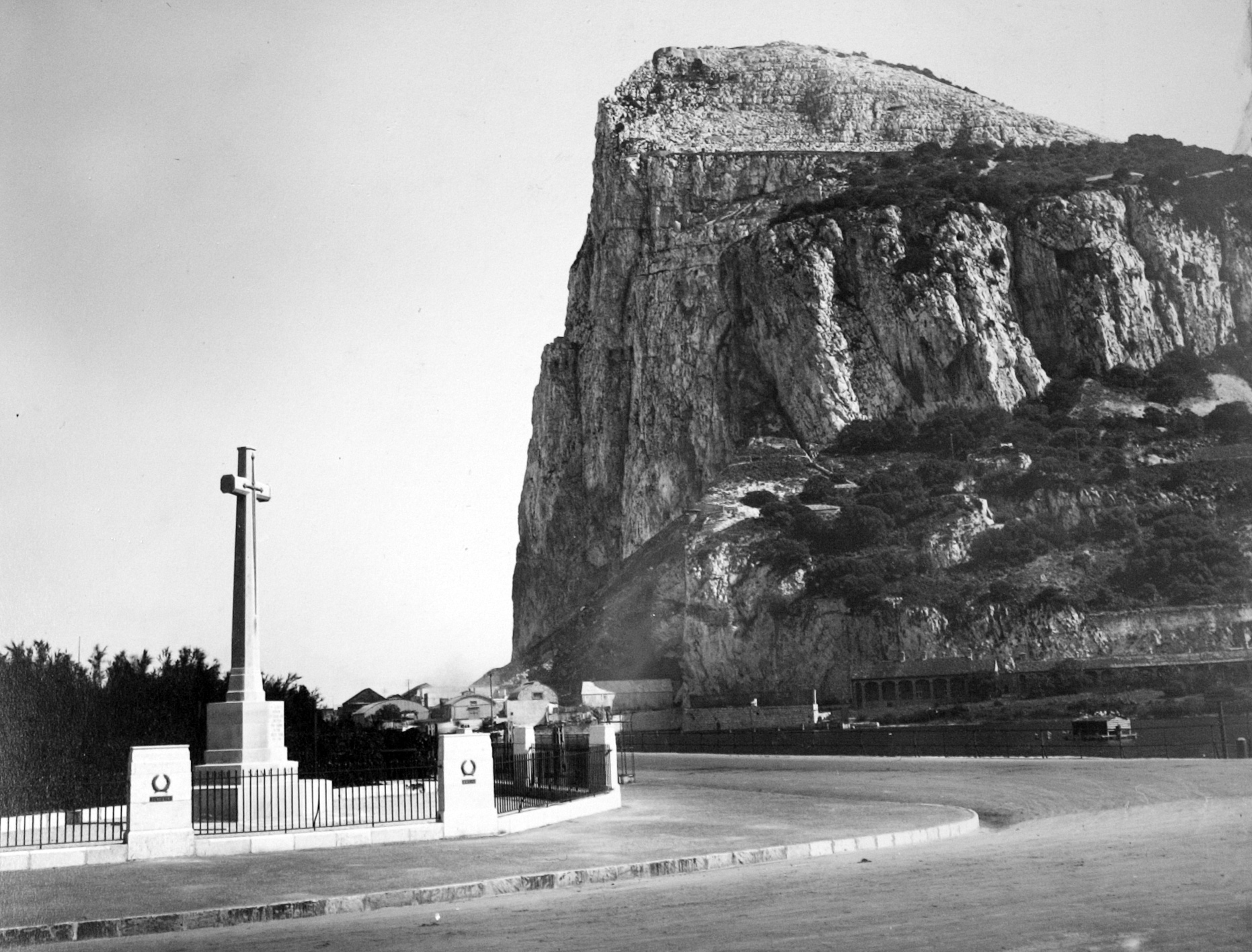 Gibraltar Cross of Sacrifice and Rock of Gibraltar